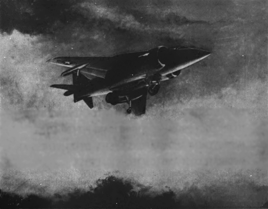 AV-8+ artist’s conception